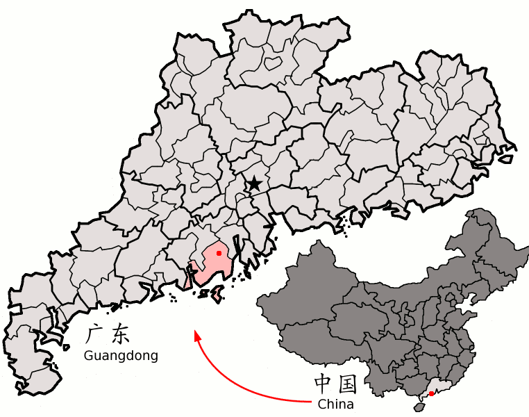 Location of Taishan city (red) and Taishan district (pink) within Guangdong province of China